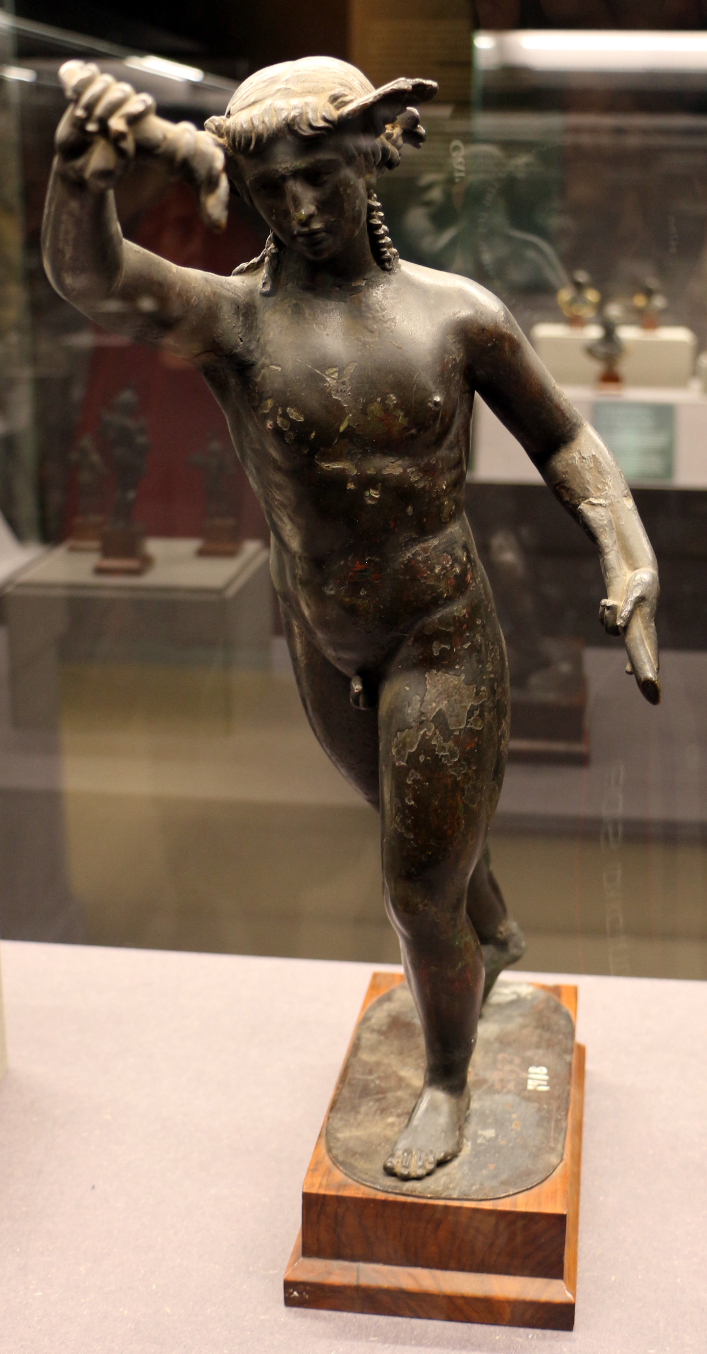 Ancient Roman bronze statuettes in the Museo archeologico nazionale (Florence)